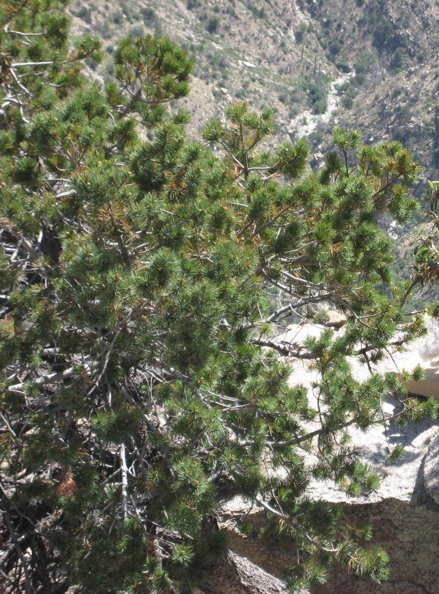 Pinus discolor, Mount Lemmon just outside of Tucson, Arizona.